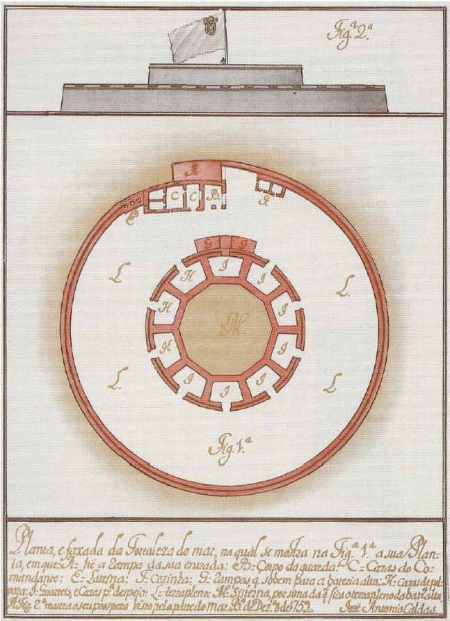 Drawing of Forte do Mar (Sea Fortress) in Salvador, Bahia (c. 1758) by military engineer José Antônio Caldas